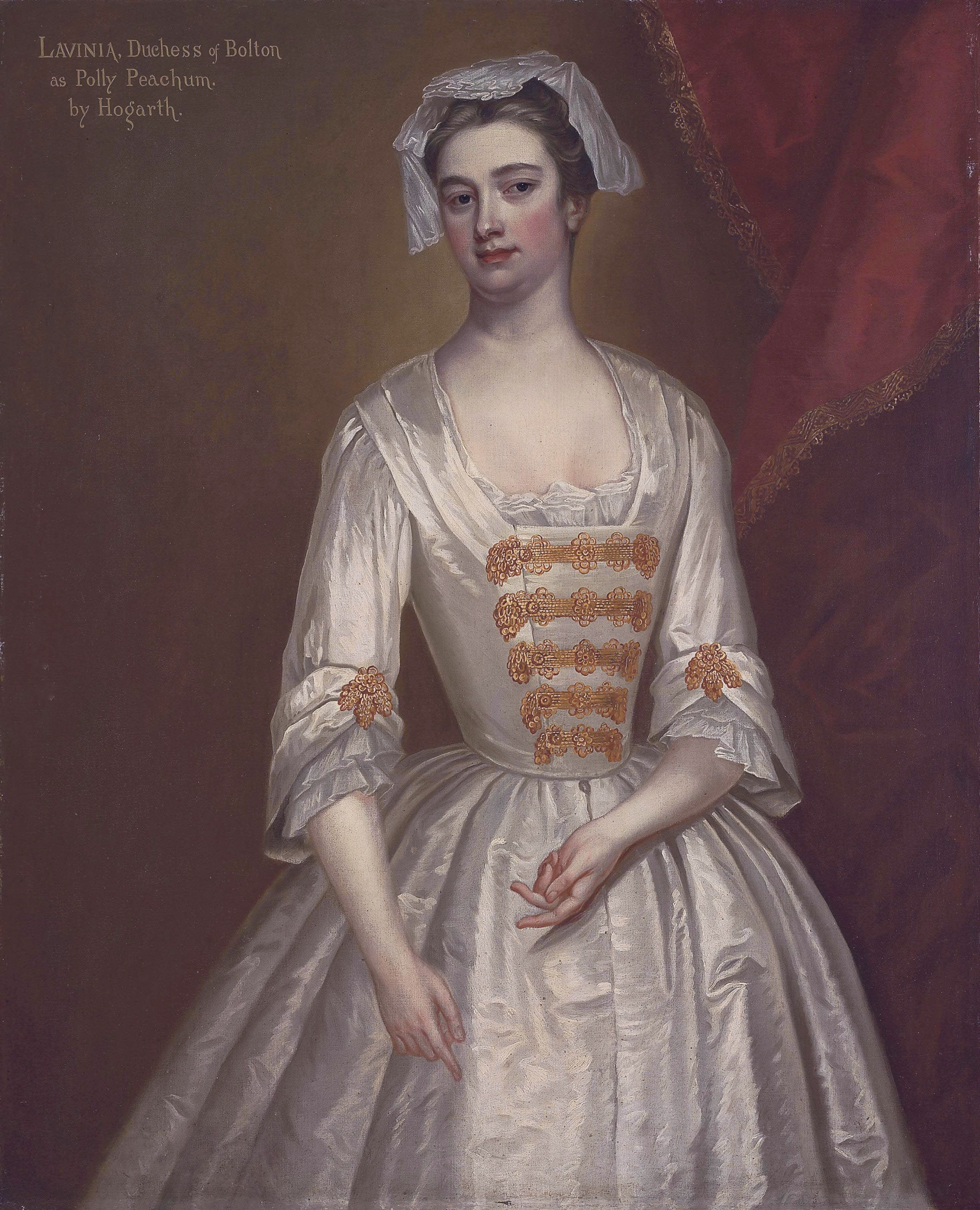 Lavinia Fenton, later Duchess of Bolton (1710-1760), as Polly Peachum in John Gay's The Beggar's Opera with identifying inscription 'LAVINIA, Duchess of Bolton/as Polly Peachum./by Hogarth.' (upper left) oil on canvas 127 x 102.8 cm.